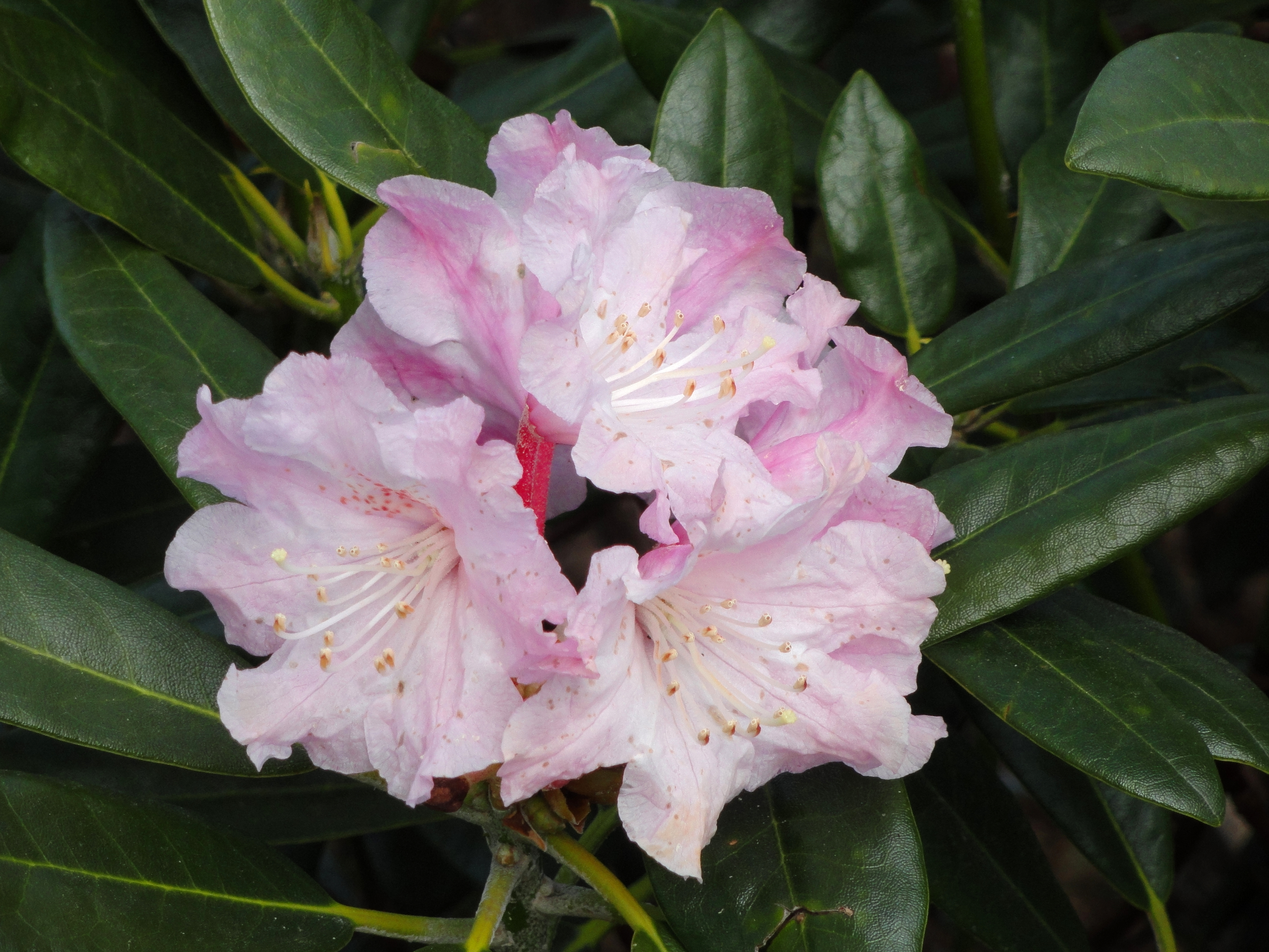 Rhododendron degronianum specimen in the University of Copenhagen Botanical Garden, Copenhagen, Denmark.